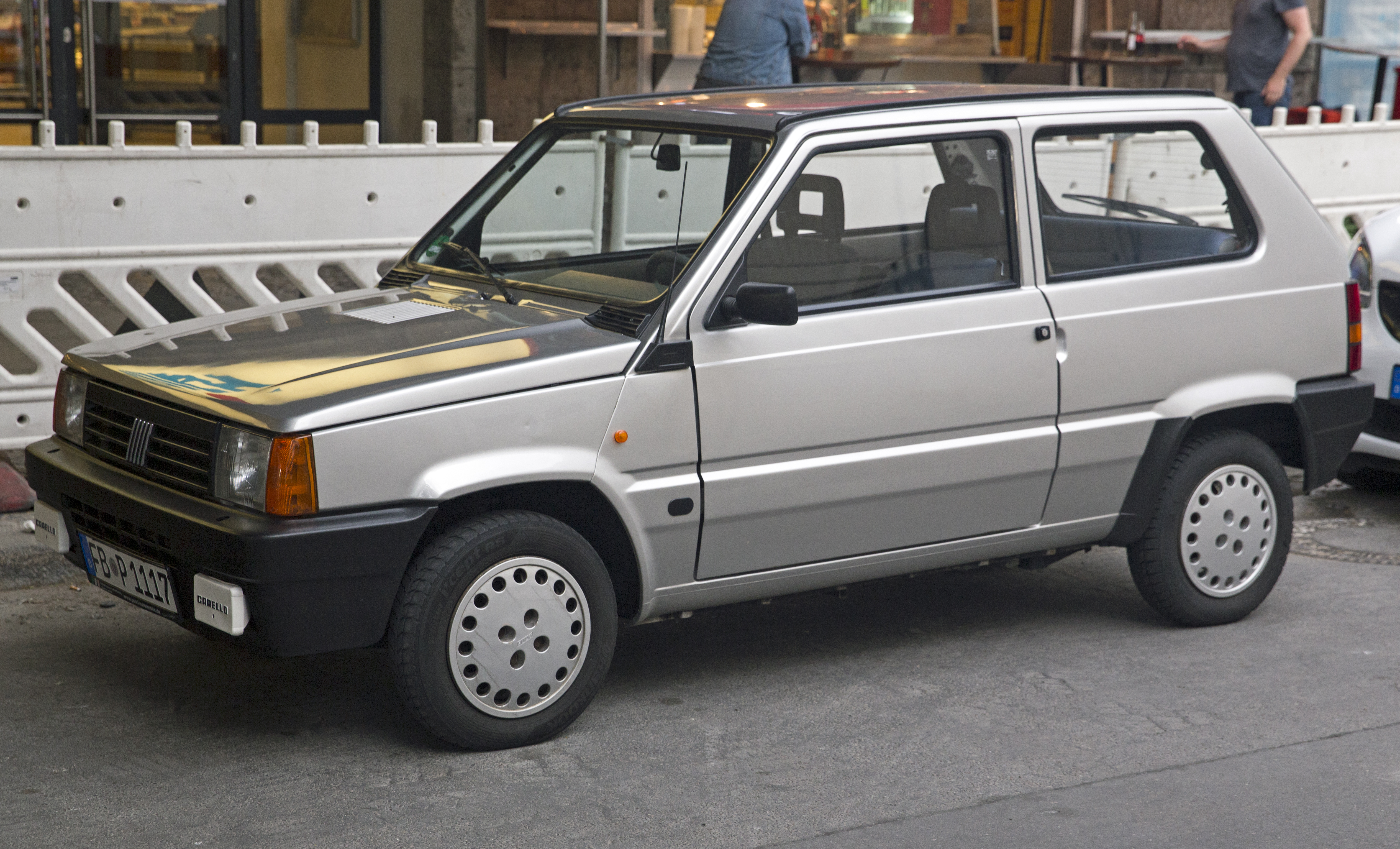 A 2001-2003 Fiat Panda Young 1.1 i.e. in Charlottenburg, Berlin.